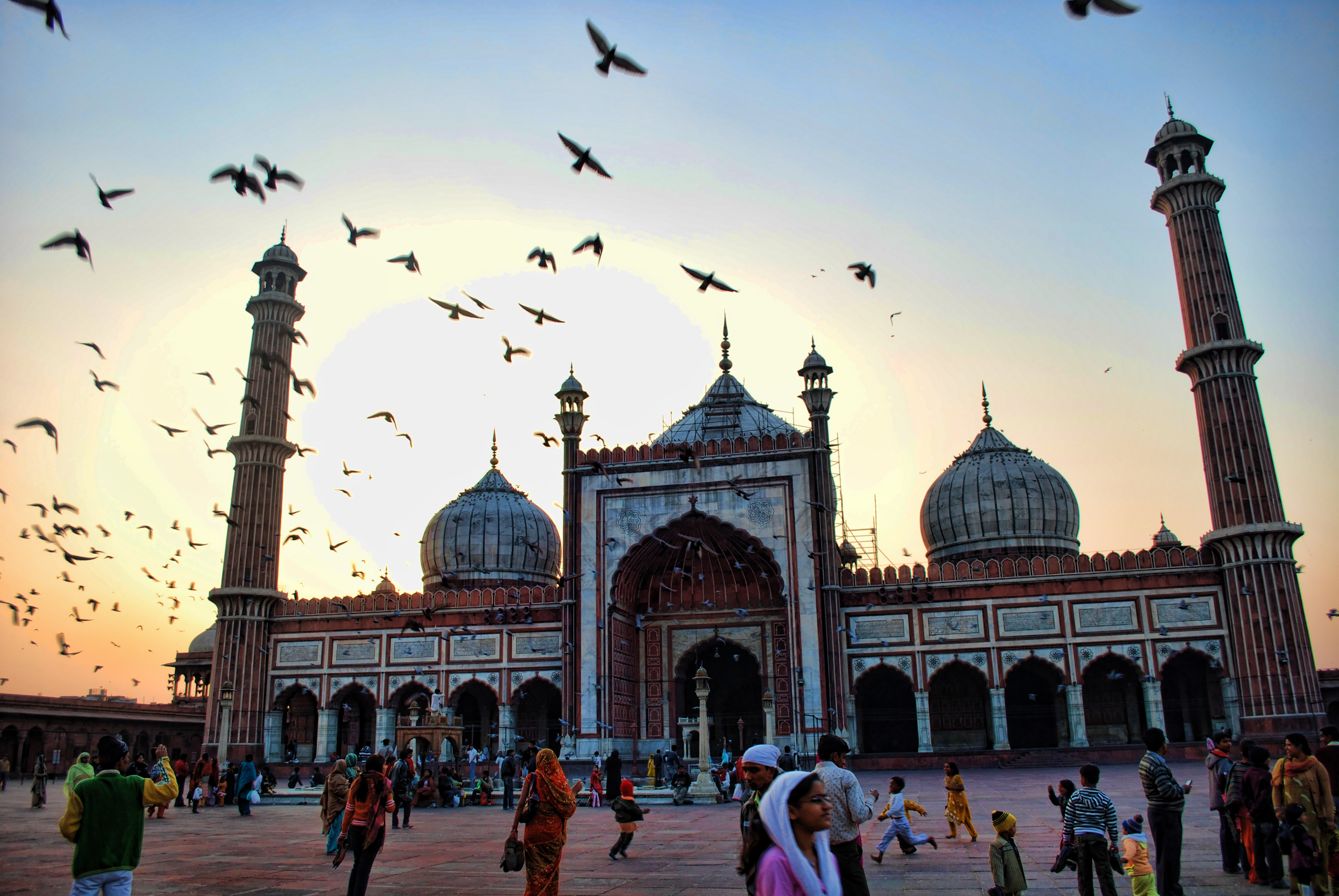 Jama Masjid, Delhi